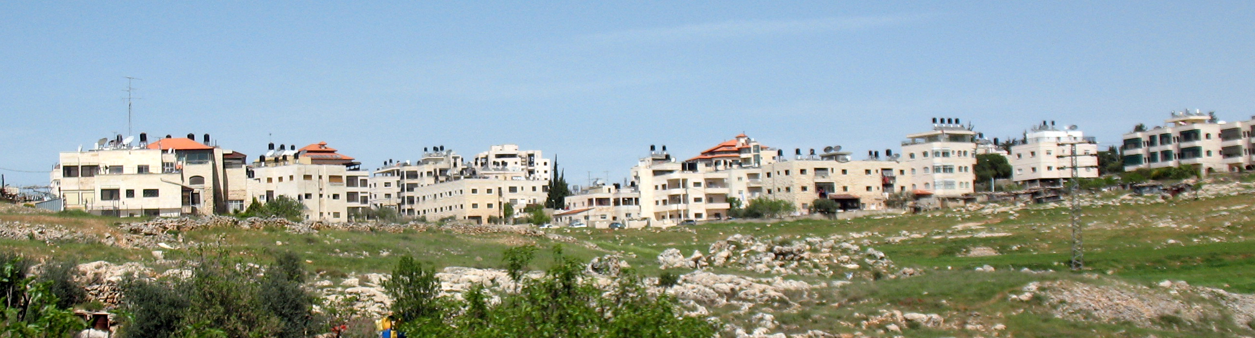 The Jerusalem neighborhood Shuafat, as seen from the south.